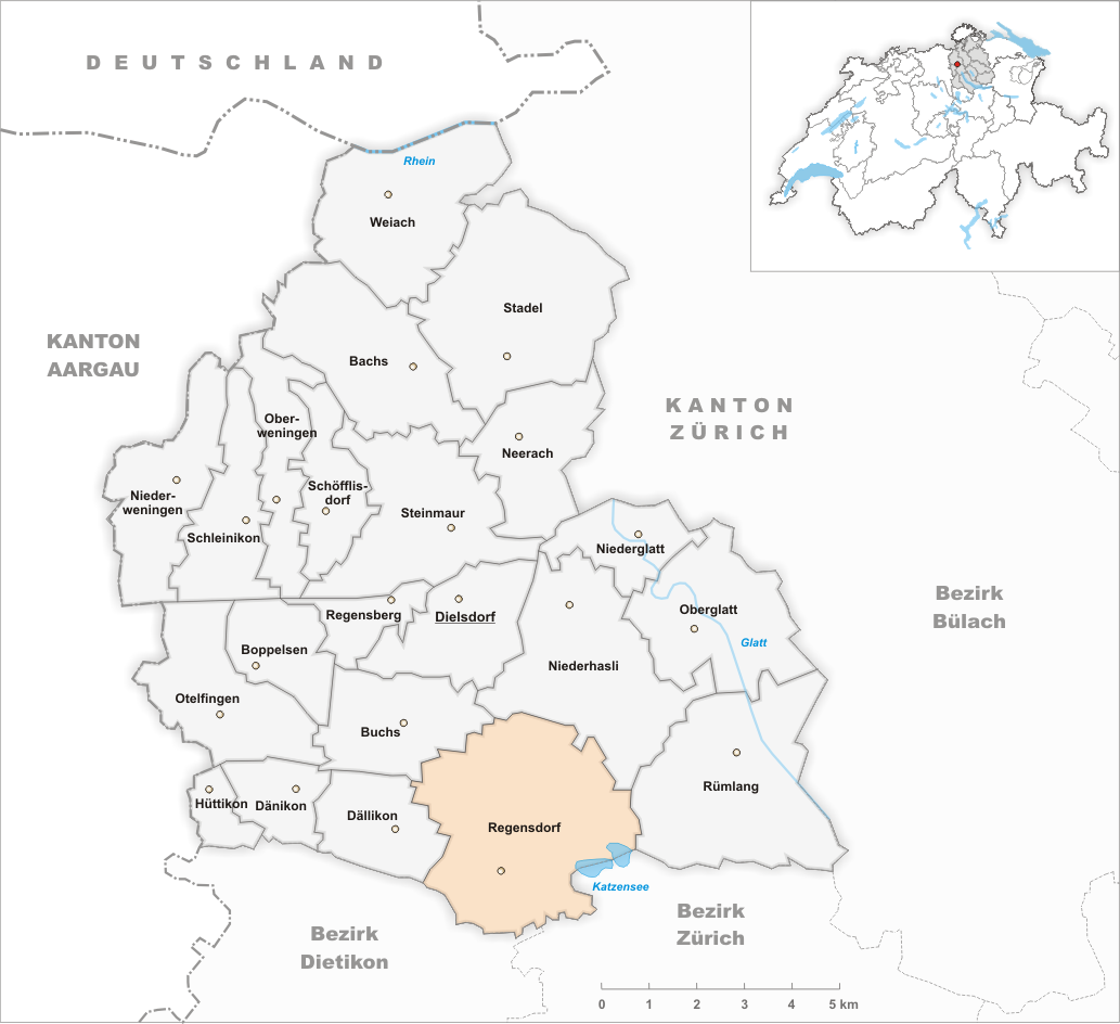 Municipality Regensdorf